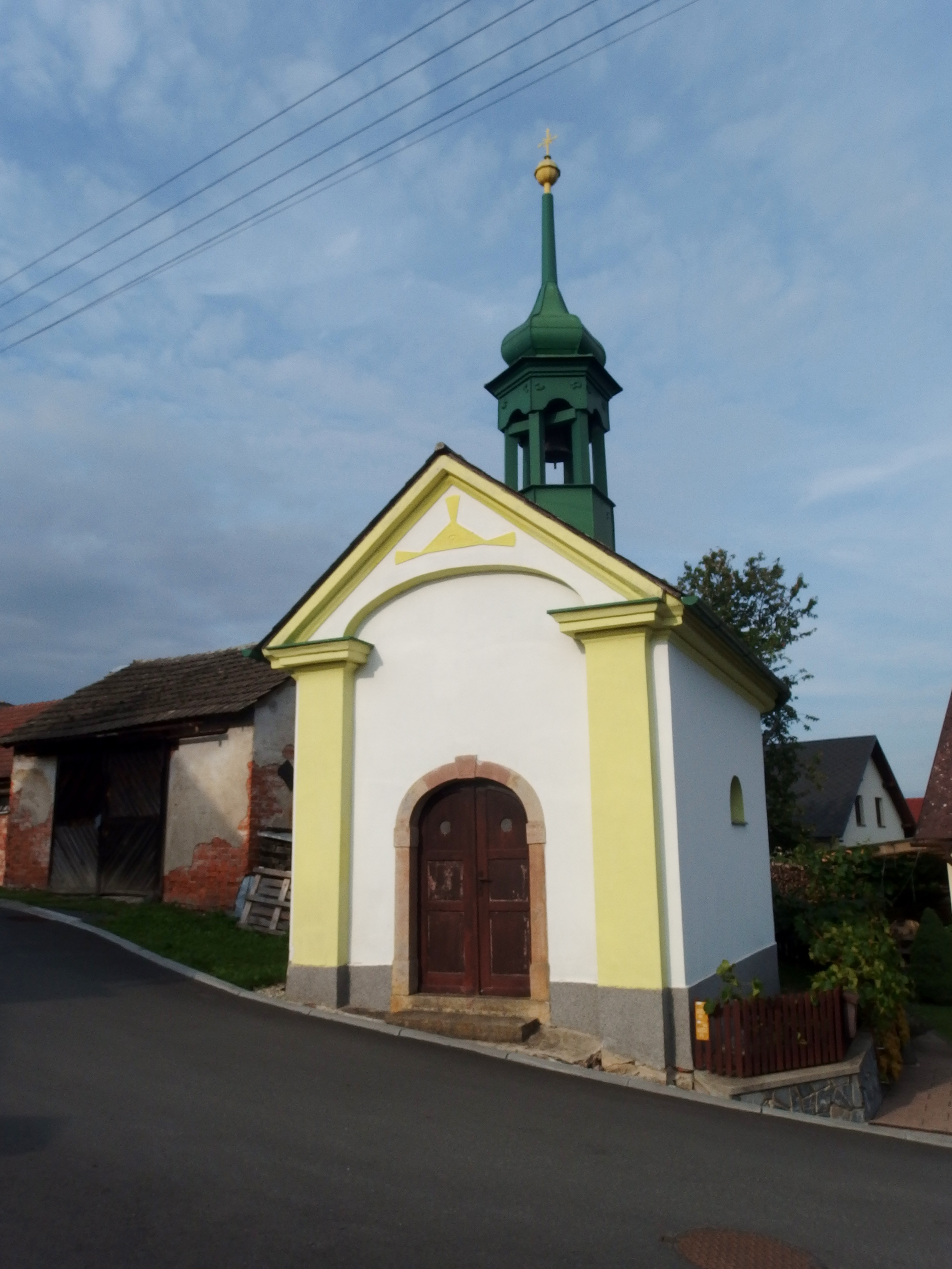 Nemile, Šumperk District, Czechia.